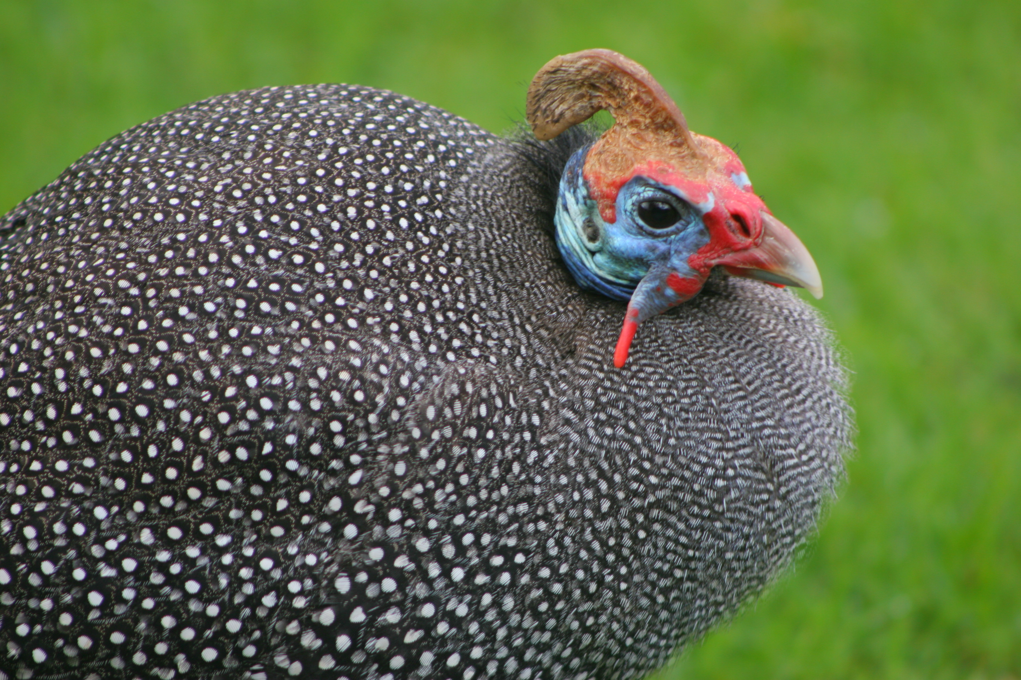 Helmeted guineafowl at Kirstenbosch Botanical Garden, South Africa. It is an introduced species on the Cape Peninsula, from elsewhere in South Africa, but they are not domesticated.